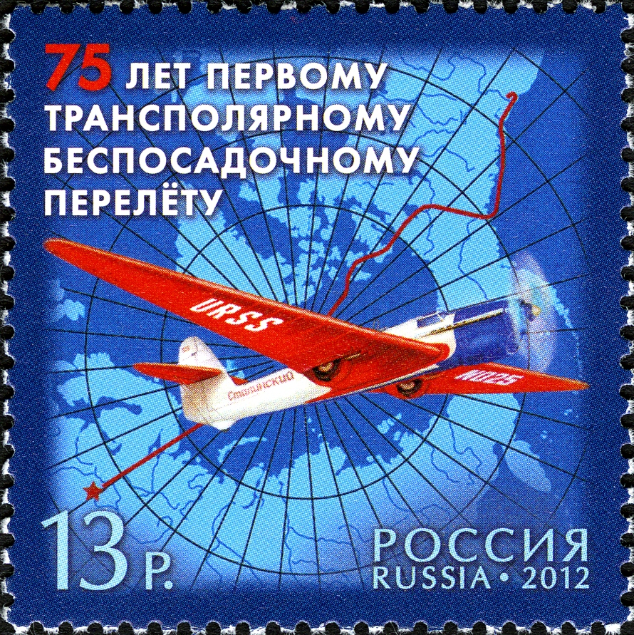 75th anniversary of the first transpolar nonstop flight. Tupolev ANT-25, the aircraft used for the flight, against the route of the record flight from Moscow to Vancouver made over 18–20 June 1937 by the crew of Valery Chkalov. The stamp of Russia, 13.00 rubles, 8 June 2012, PTC Marka Catalogue No 1596, Michel No 1828. Coated paper. Offset printing, multicoloured. Perforation: comb 11½:11½. Size of the stamp: 37×37 mm. Print run: 368,000.